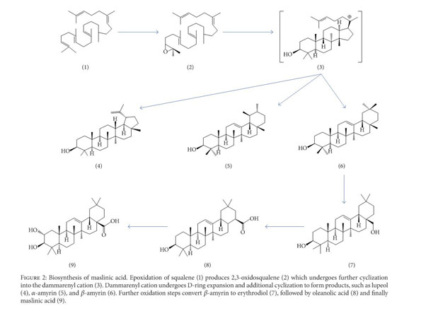 biosynthesis of oleanic acid